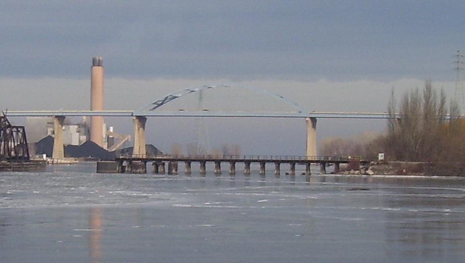 The arched Leo Frigo Memorial Bridge, crossing the Fox River in Green Bay, Wisconsin. In the foreground is a railroad bridge with open (turned) swing span visible at the far left.